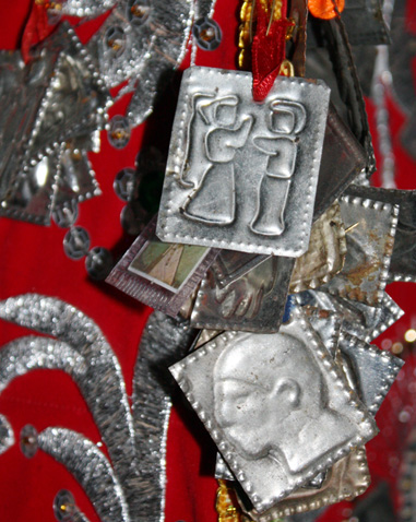 Votive offerings attatched to a saint figurine's cape, at the pilgrim place of the "Señor de Huanca", in Calca, Peru.